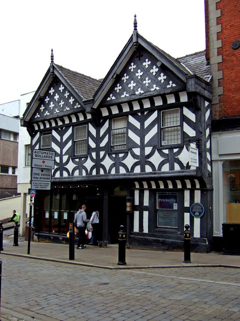 Three Shires Built in 1580 as a Town House for the Legh family of Adlington Hall Now a nice restaurant